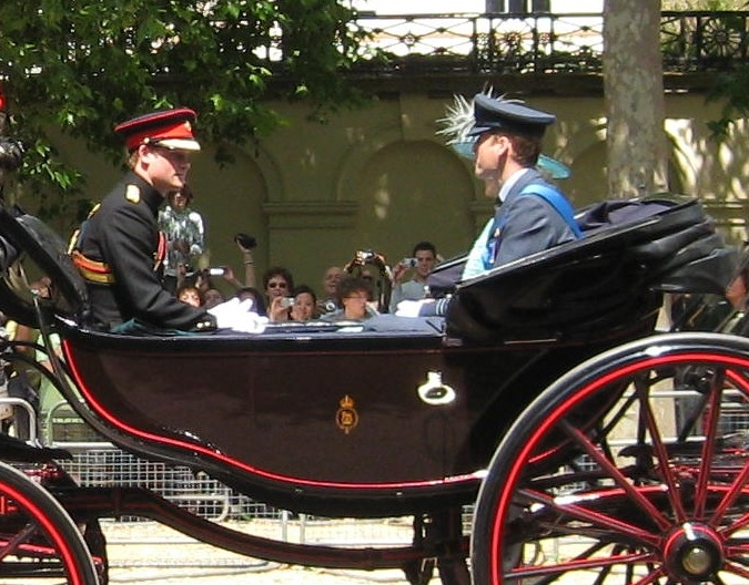 Prince William of Wales & Prince Henry of Wales seated in horse-drawn carriage in 2009